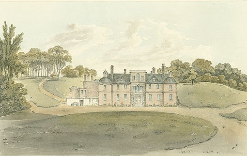 Watercolour of Marden Park, Surrey, England.